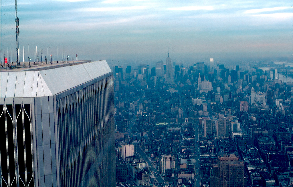 View from World Trade Center